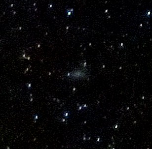 Picture taken with a Canon PowerShot G3X camera under light light pollution. ISO 3200, 5 seconds, aperture f/5.0, focal length 100 mm (equivalent to 35 mm full frame)